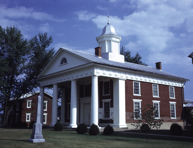 Greene County Courthouse (Built 1838), Stanardsville, (Greene County, Virginia) This image or file is a work of a United States Department of Agriculture employee, taken or made as part of that person's official duties. As a work of the U.S. federal government, the image is in the public domain. Object location38° 17′ 46″ N, 78° 26′ 22″ W